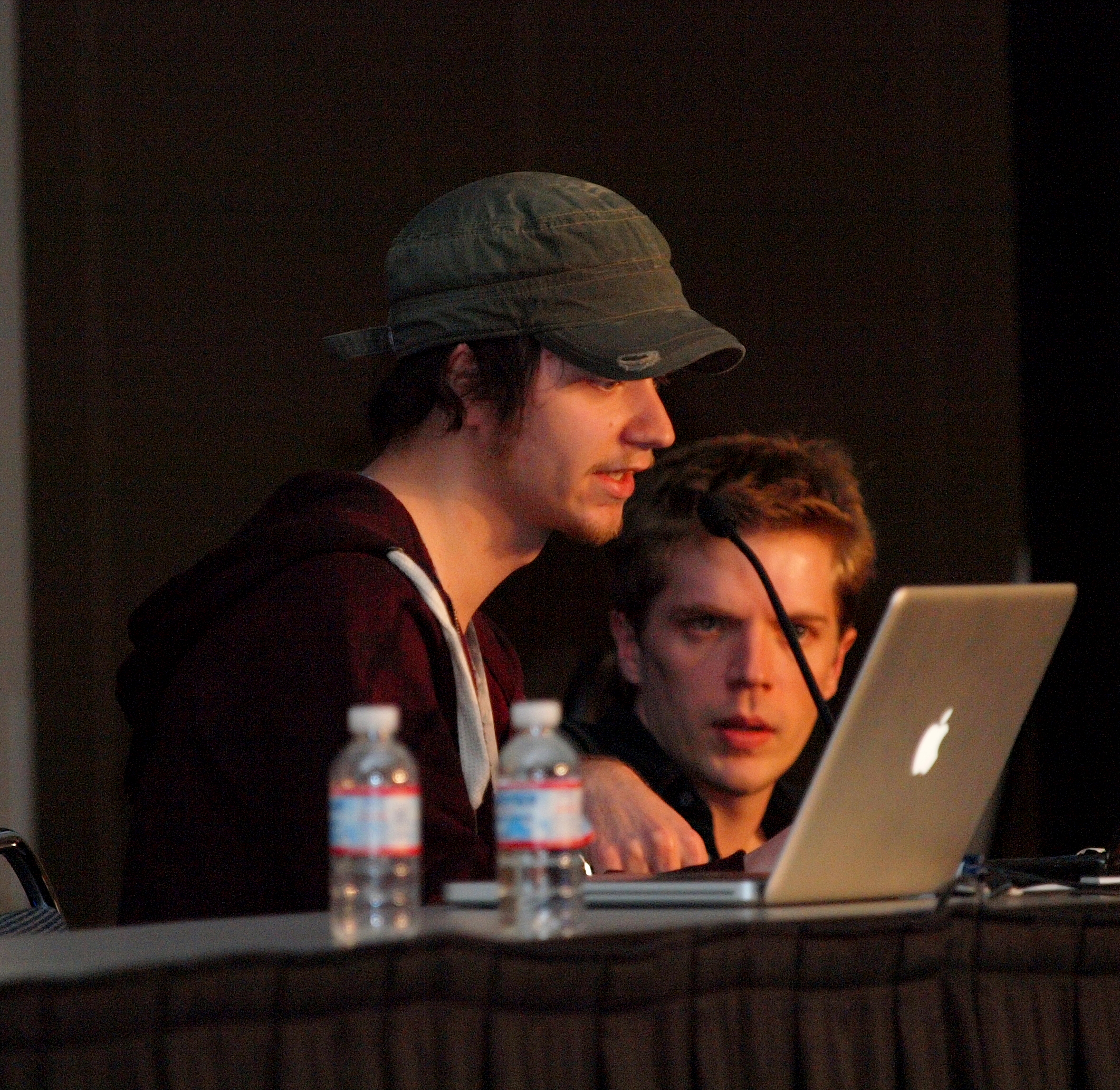 Jonatan Söderström (aka Cactus) and Matthew Wegner, at the Game Developers Conference in 2010 (fourth day), speaking at "The Nuovo Sessions".